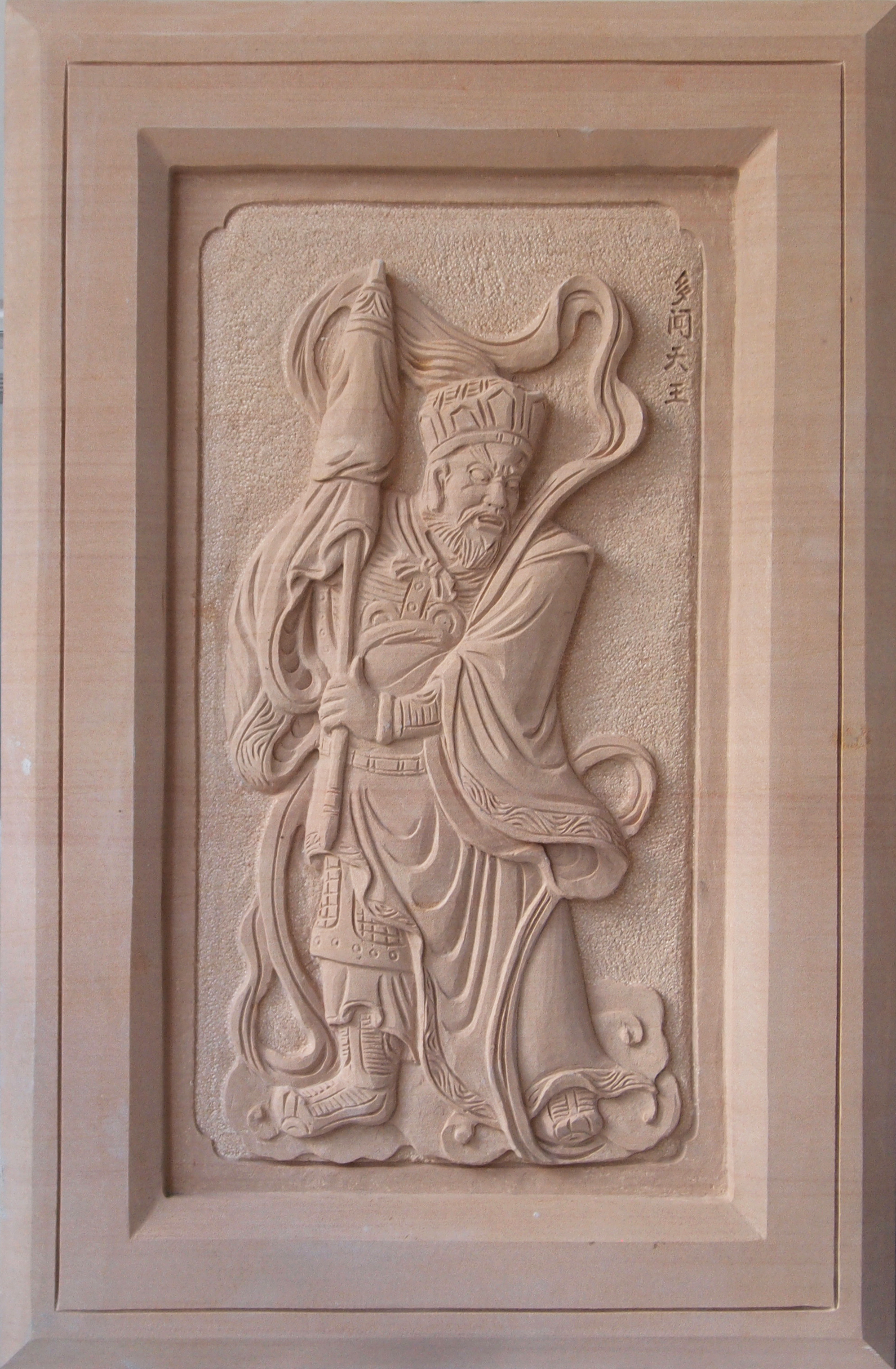 Chief of the four kings and protector of the north